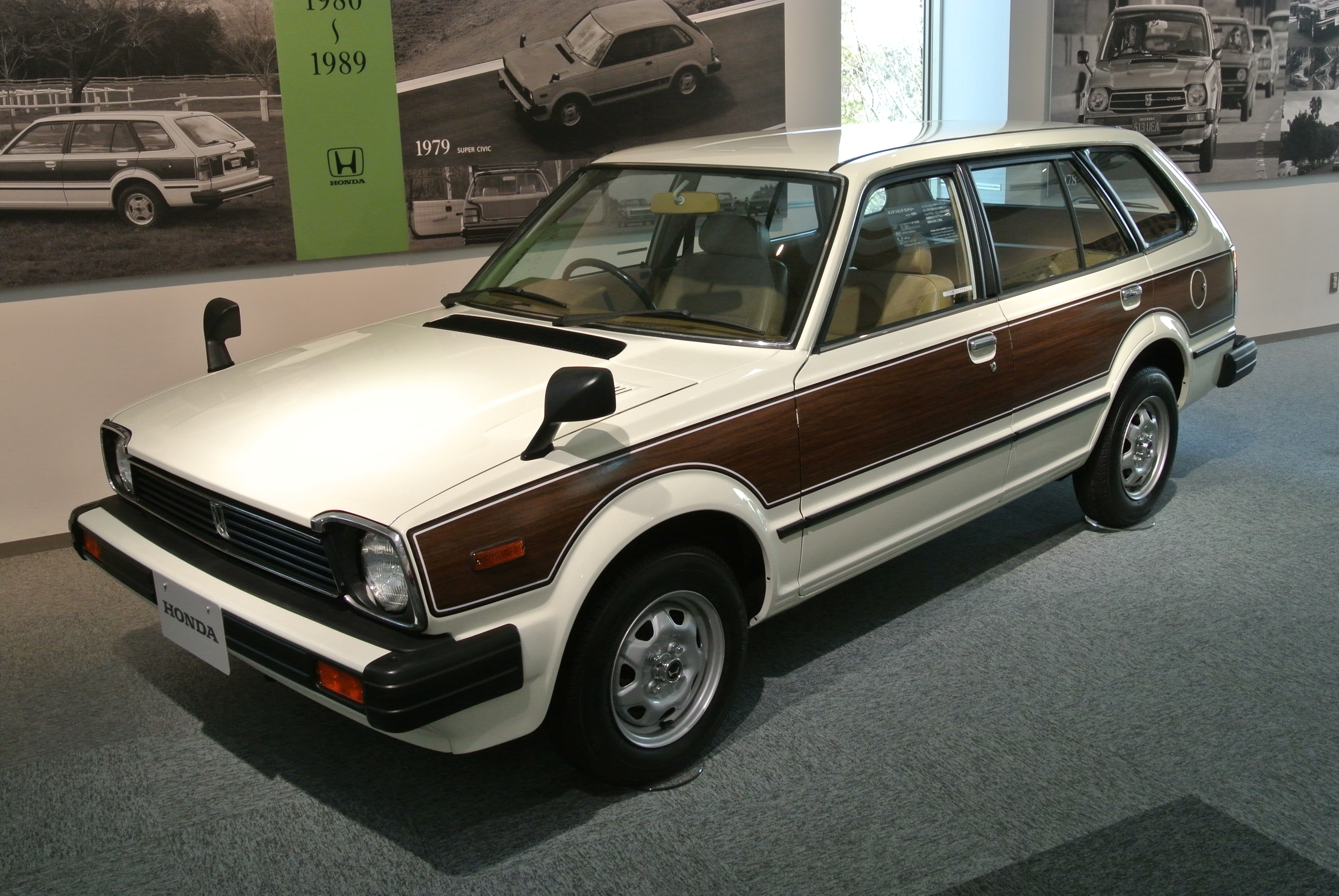 1980 Honda CIVIC COUNTRY in the Honda Collection Hall.